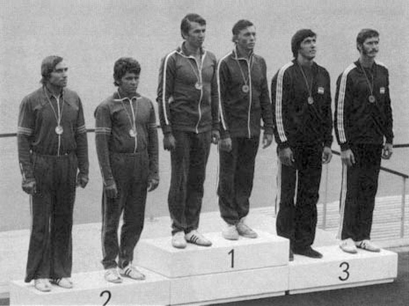 C2-1000 m canoe racing podium at the 1976 Olympics, Left-right: Gheorghe Danielov, Gheorghe Simionov, Serhiy Petrenko, Aleksandr Vinogradov, Tamás Buday, Oszkár Frey.